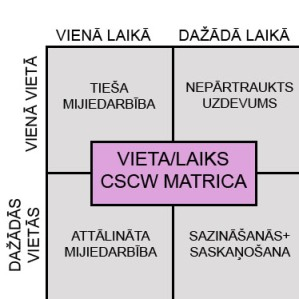 CSCW Matrix